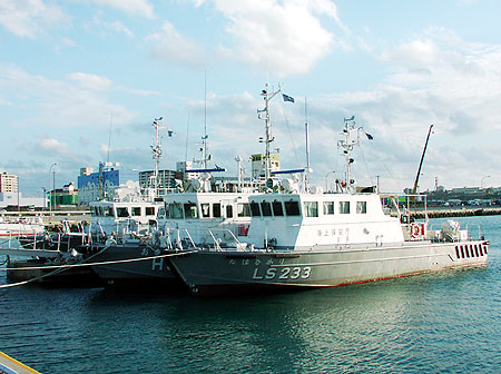 JCG (Japan Coast Guard) LS 233 Nahahikari